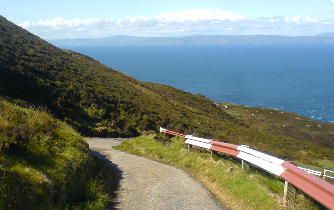 Antrim Coast from Mull of Kintyre on a sunny day, taken at an angle. Scotland (Foreground), Straits of Moyle (Mid-Ground), Northern Ireland's Antrim Coast (in distance).